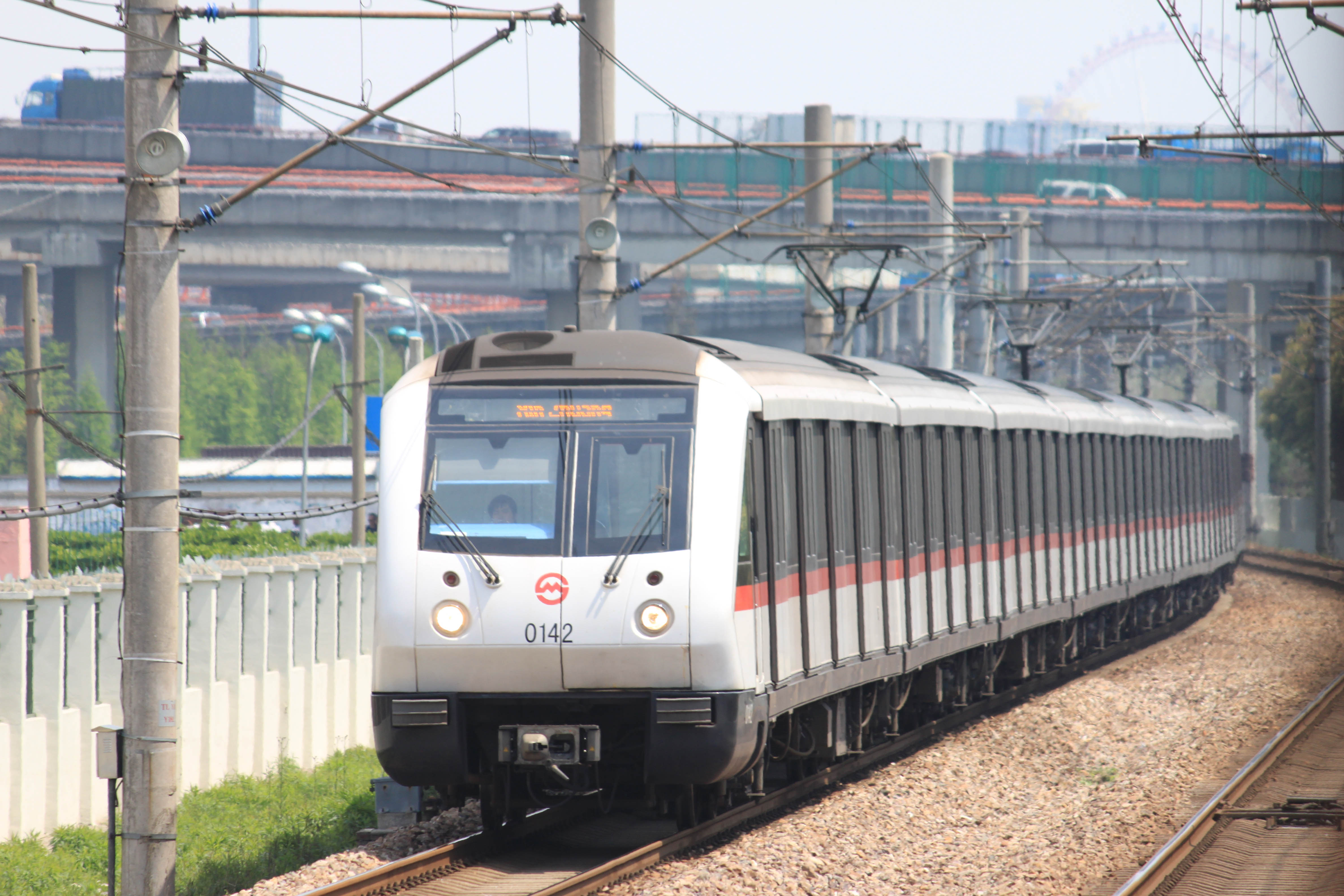 Shanghai Metro Line 1 AC06 Train